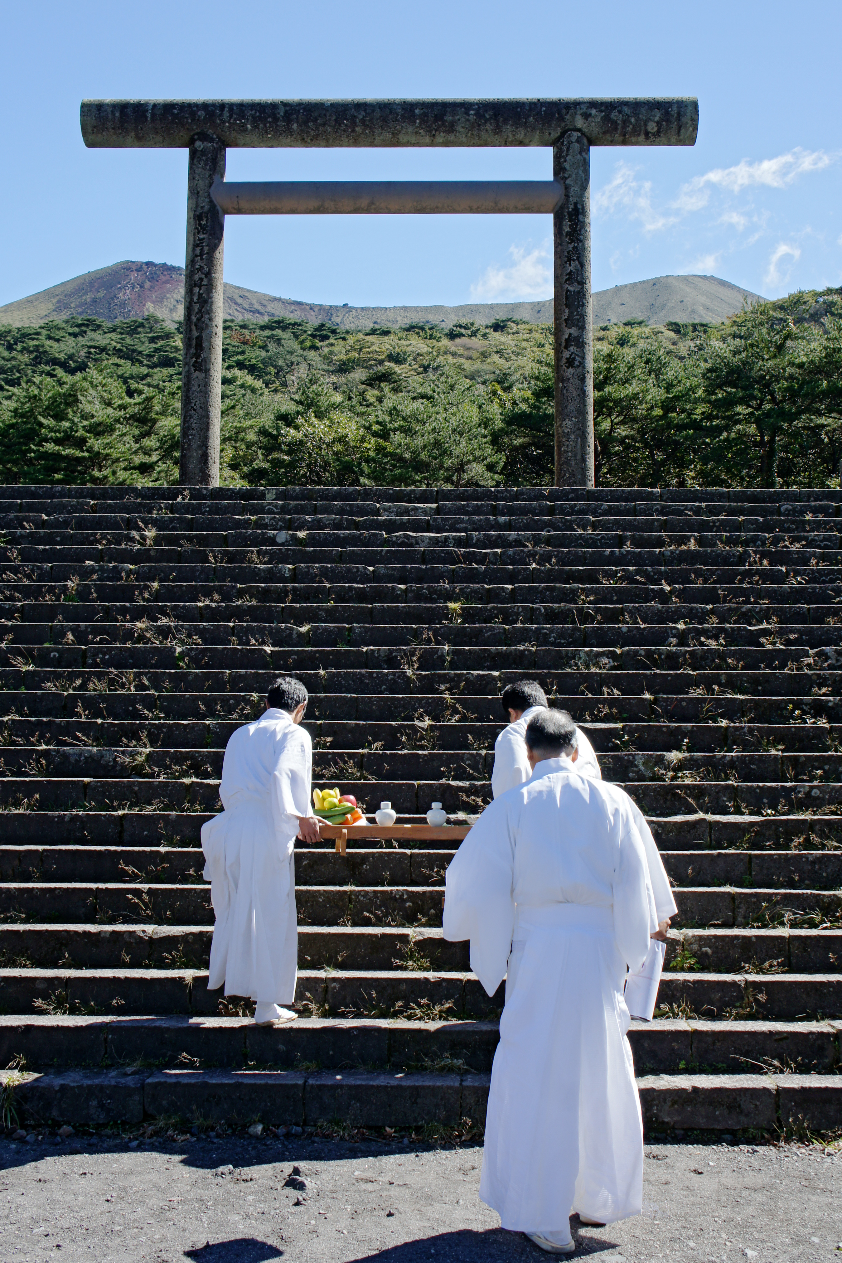 Takachiho-gawara Furumiya-ato Shrine in Kirishima, Kagoshima prefecture, Japan. Here is a Sacred ground of the descent to earth of Ninigi-no-Mikoto (the grandson of Amaterasu).